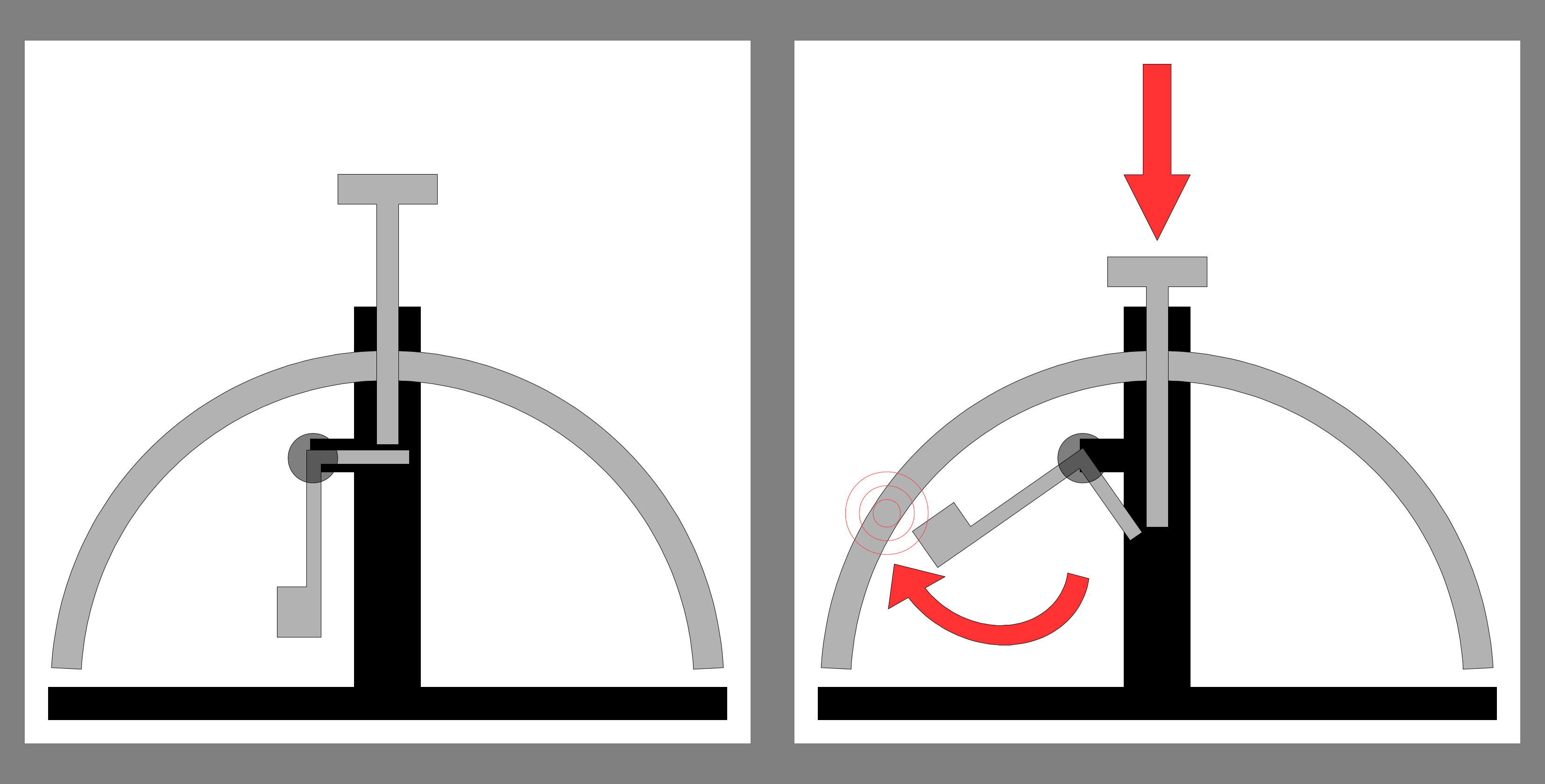 A diagram illustrating how a call bell works when the button is pressed